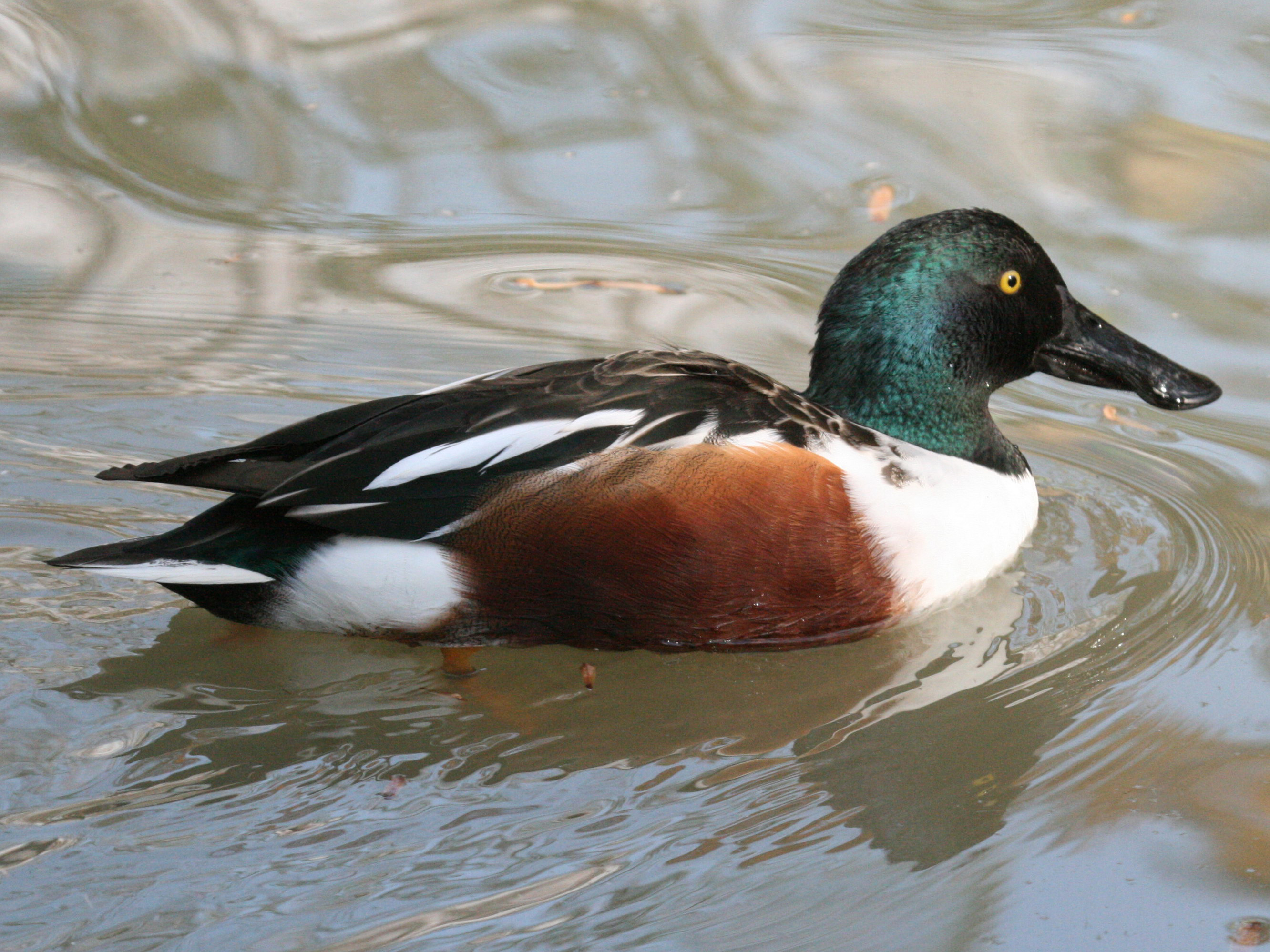 ♂ Northern Shoveler (Anas clypeata) at Sylvan Heights Waterfowl Park in Scotland Neck, North Carolina.